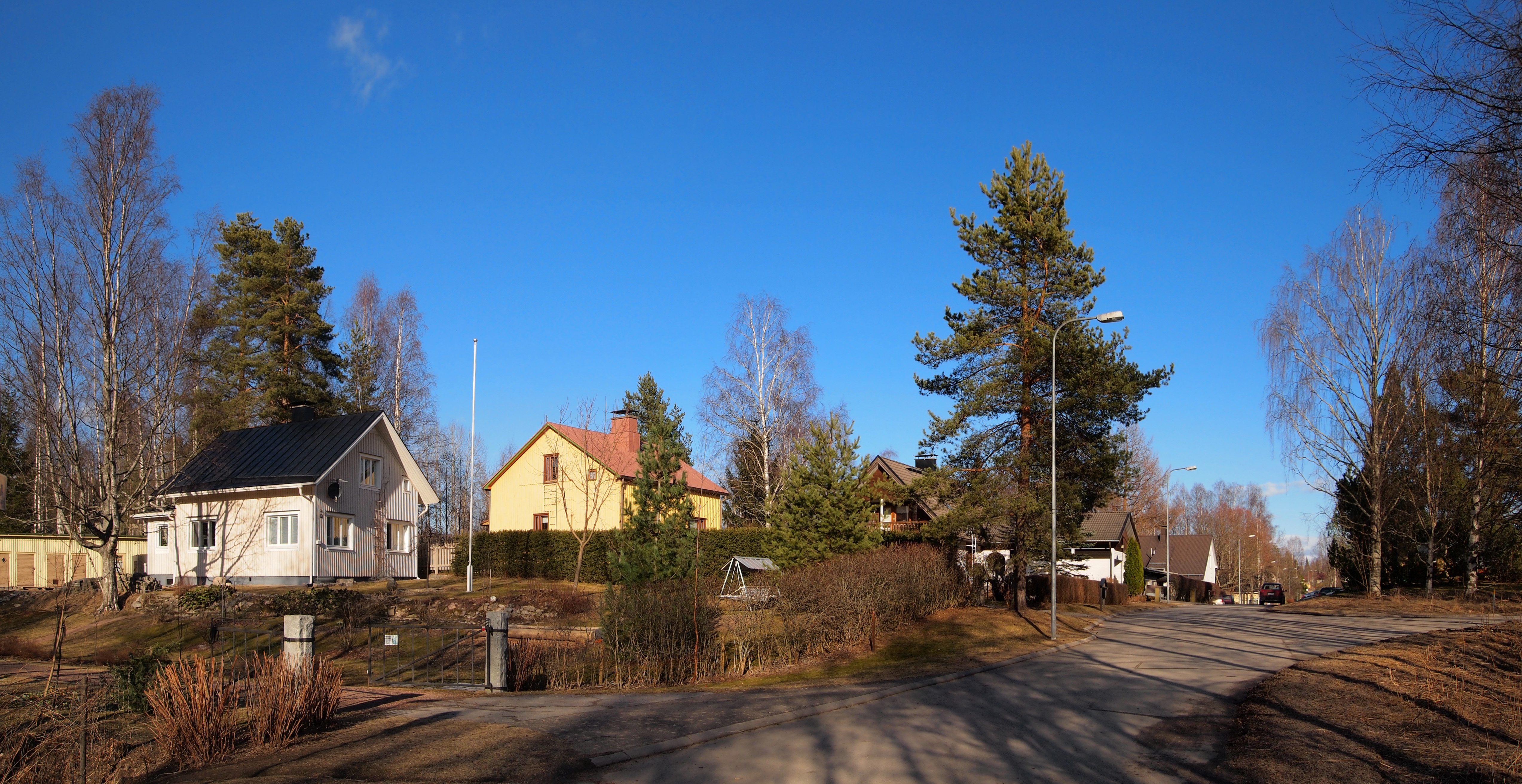 Street Peltokatu in Jyväskylä. This photograph was taken with an Olympus E-PL1